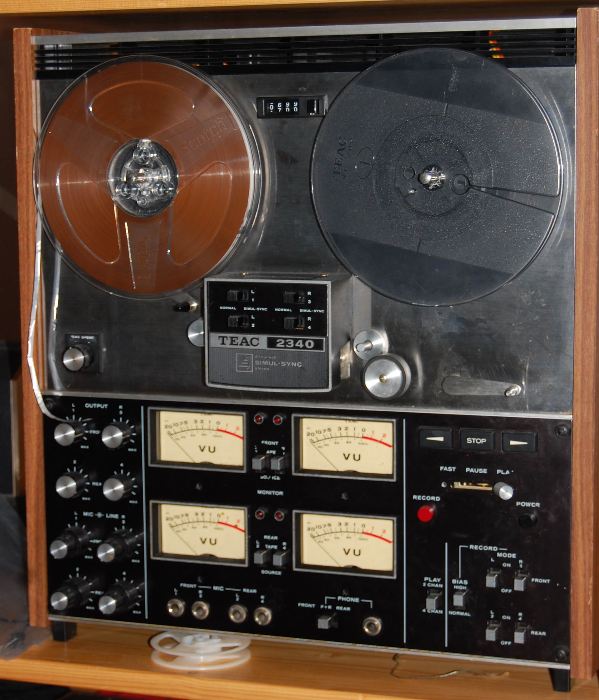 My TEAC 2340, photo taken my me.